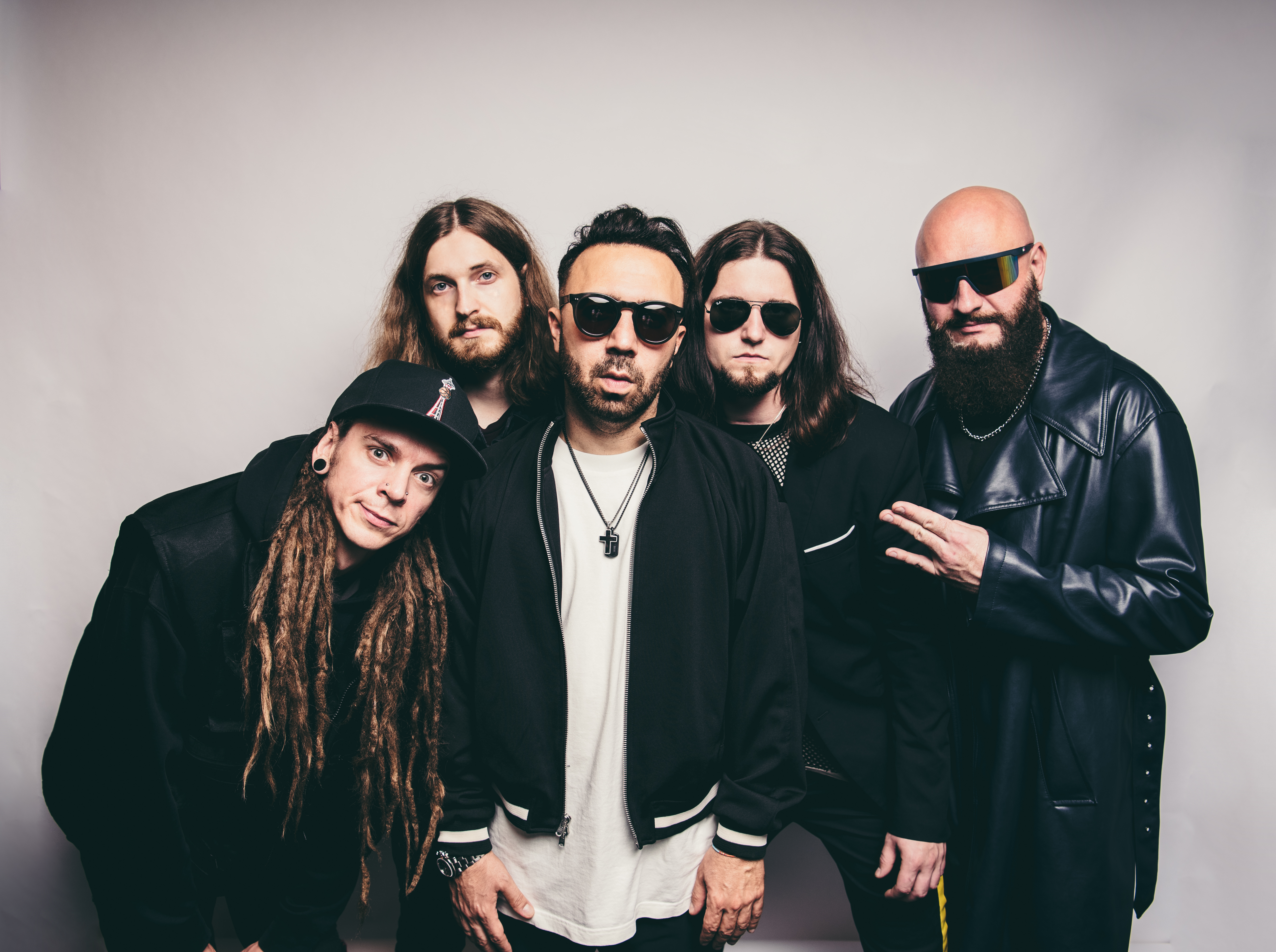 New photo of musical rock band Jack Action